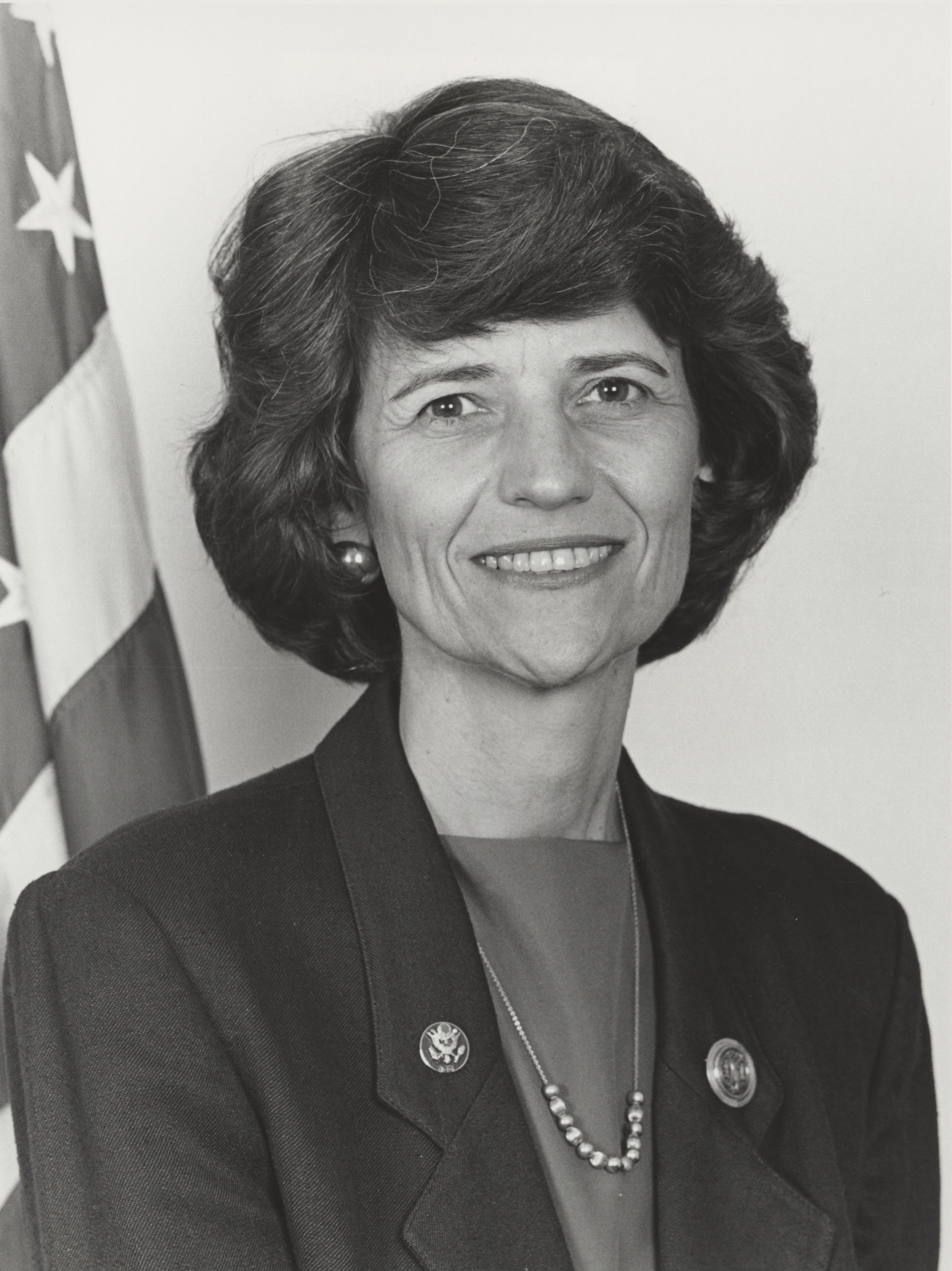 Official Portrait of Liz J. Patterson